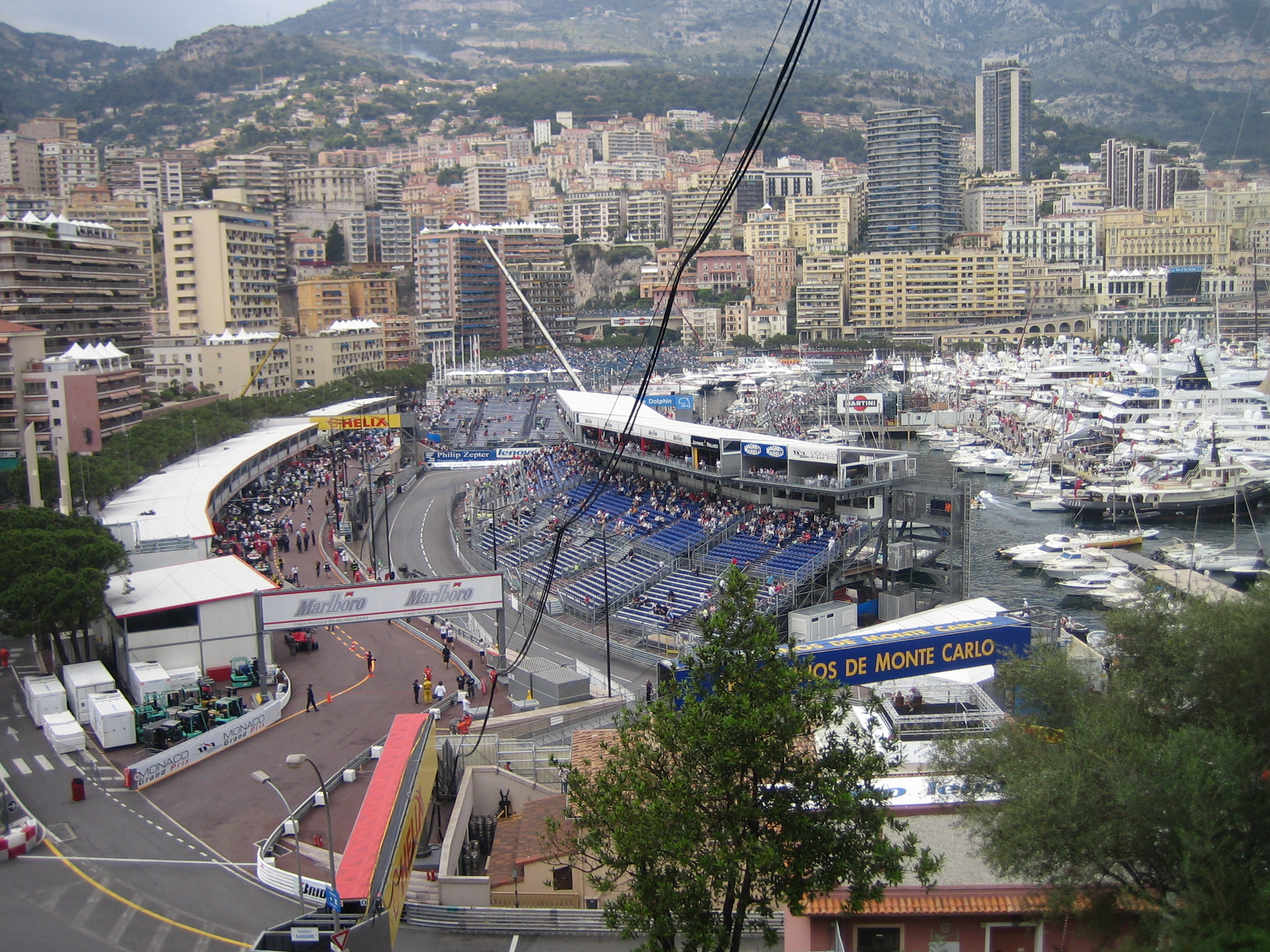 This is the view from the Secteur Rocher hillside after qualifying on Saturday.